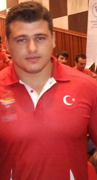 Rıza Kayaalp, Turkish Graeco-Roman style wrestler.